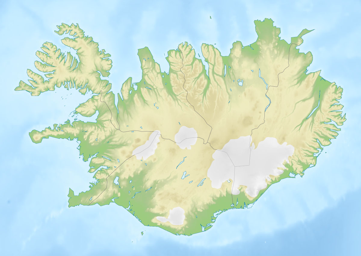 Location map of Iceland Equirectangular projection, N/S stretching 230 %. Geographic limits of the map: * N: 66.8° N * S: 63.1° N * W: 25° W * E: 13° W